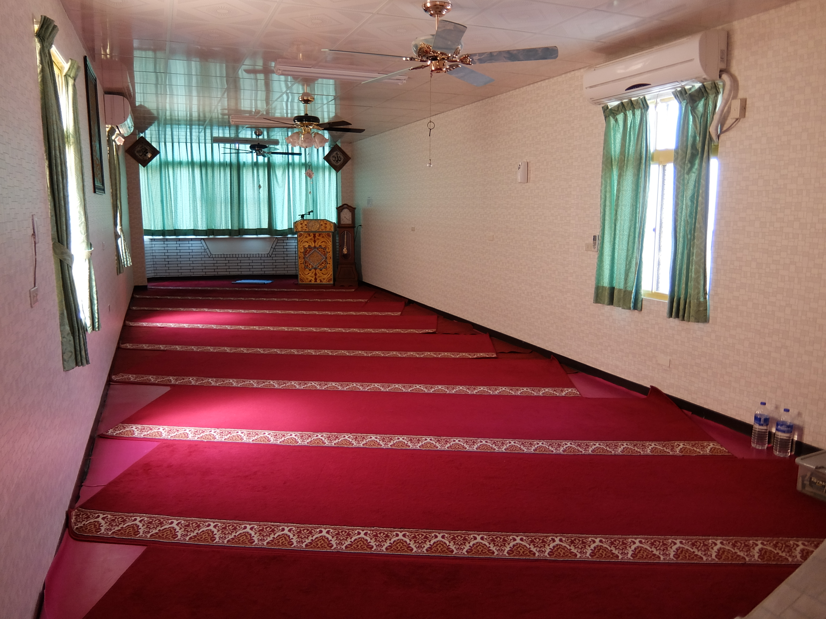 An-Nur Tongkang Mosque, Donggang Township, Pingtung County, Taiwan